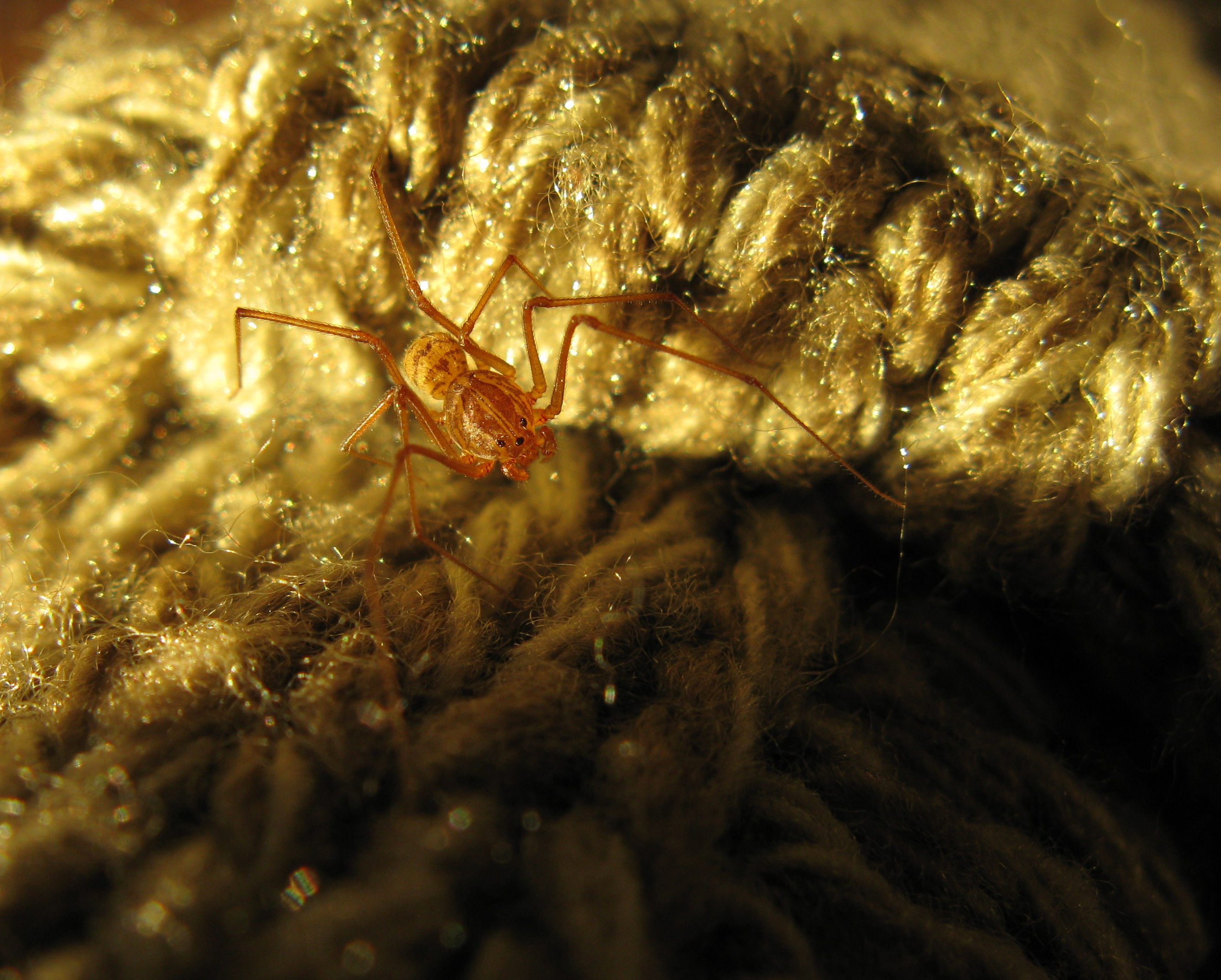 Spitting spider, family Scytodidae. Male, showing pedipalps